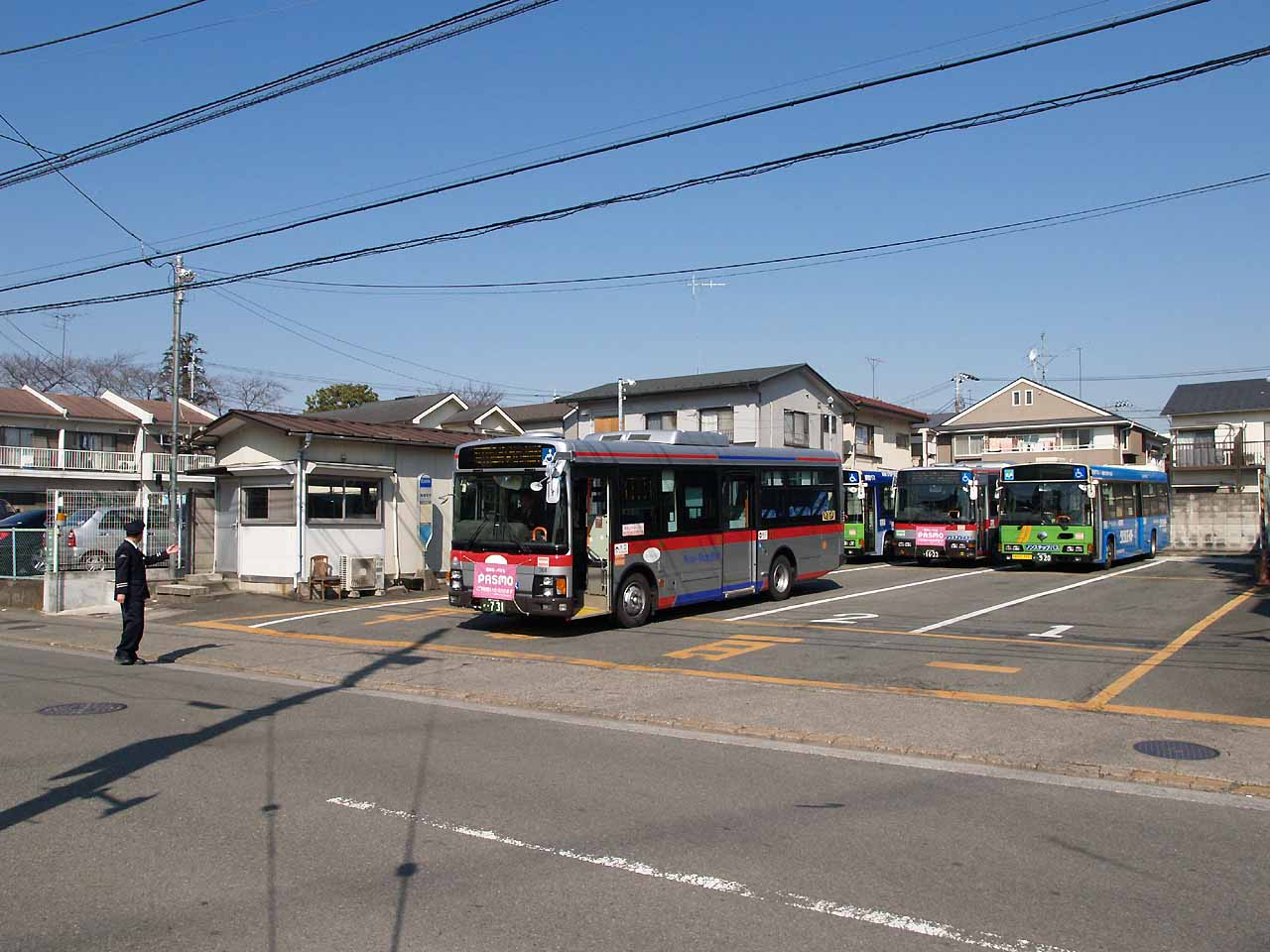 Tokyu Bus Todoroki Yard.